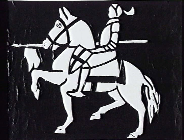 On display at the Australian War Memorial is the Formation Sign of the 3rd Australian Armoured Division, showing a mounted knight in armour.